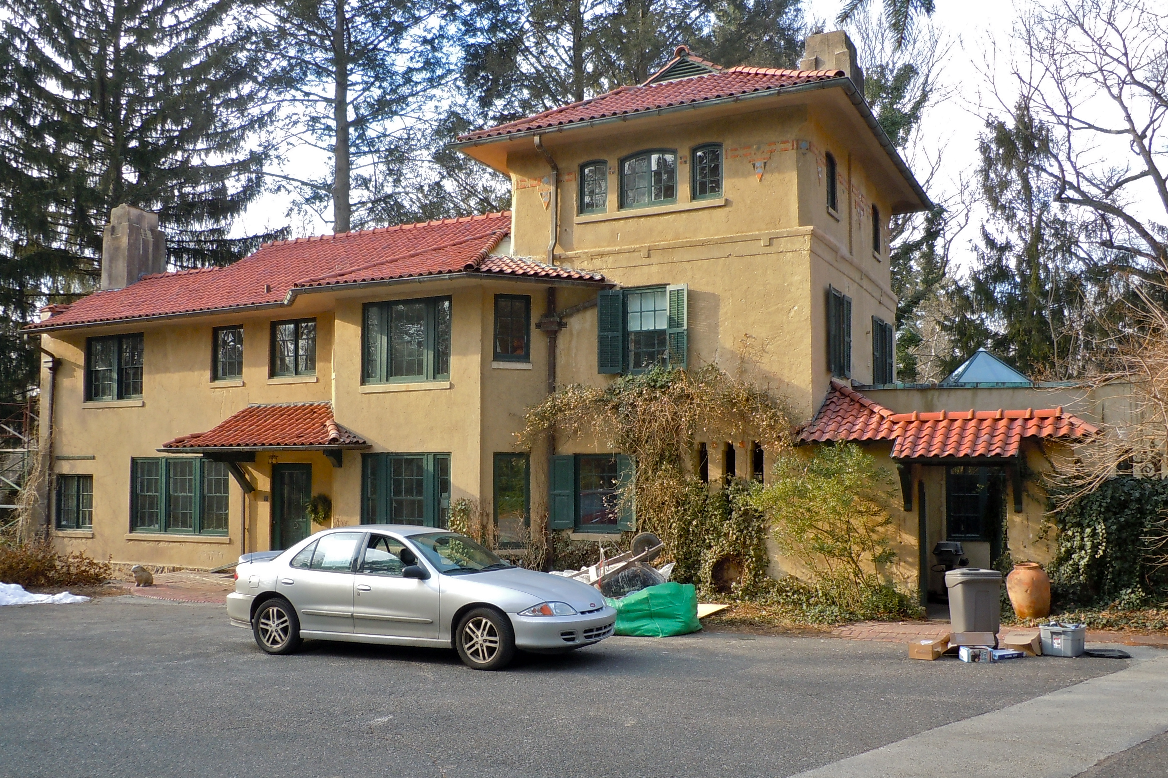 Rose Valley Improvement Company house in Rose Valley, Pennsylvania. Rose Valley is a NRHP Historic District, since 2010. The Improvement Company houses were designed by architect Will Price and all are on Porter Lane, off of Possum Hallow Road, in Rose Valley, near coords 39.897465,-75.384665. This house is 2nd from the end of the lane.